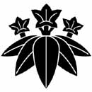 Japanese Crest Rindou